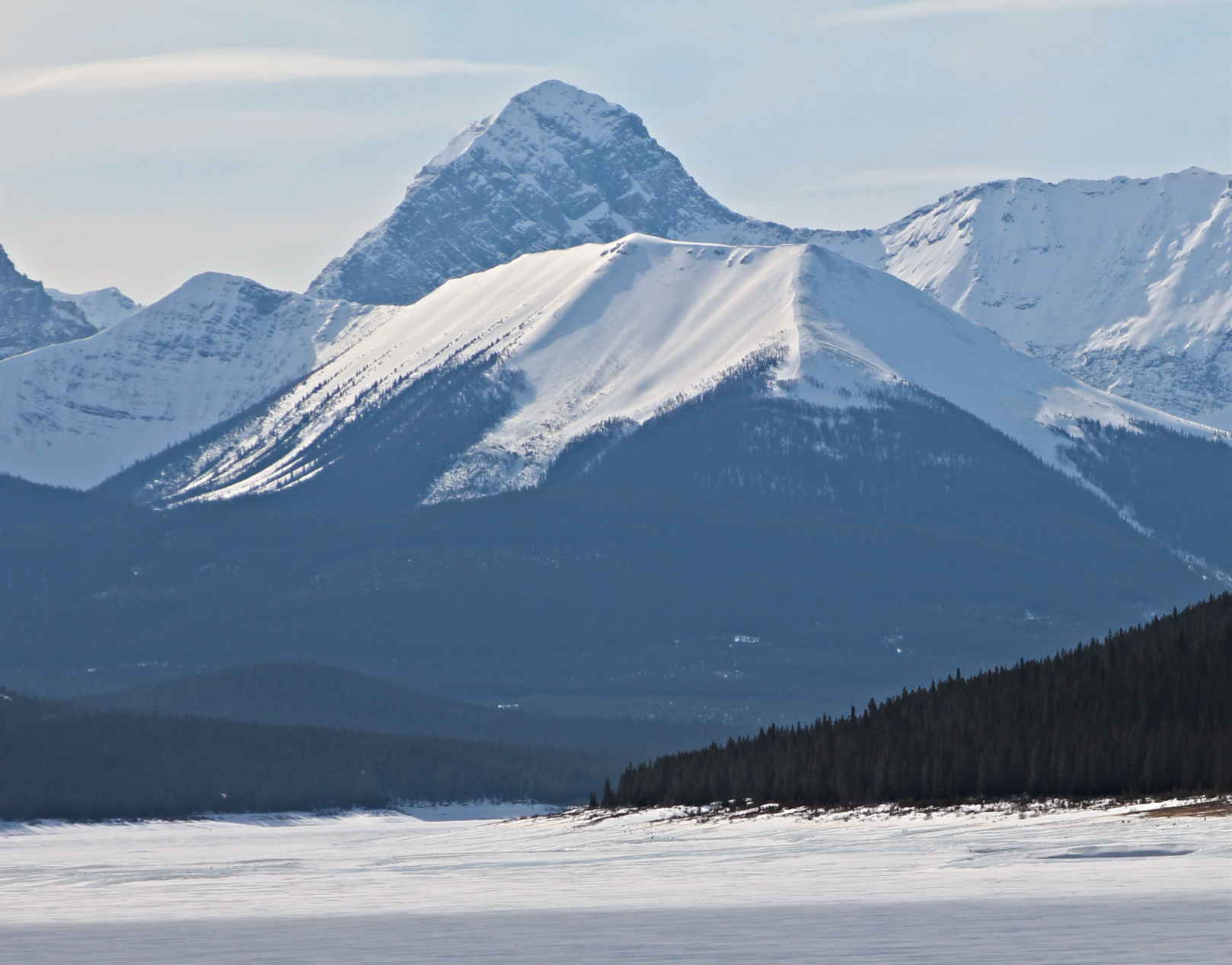 Mount Smuts rising behind Tent Ridge. Alberta, Canada